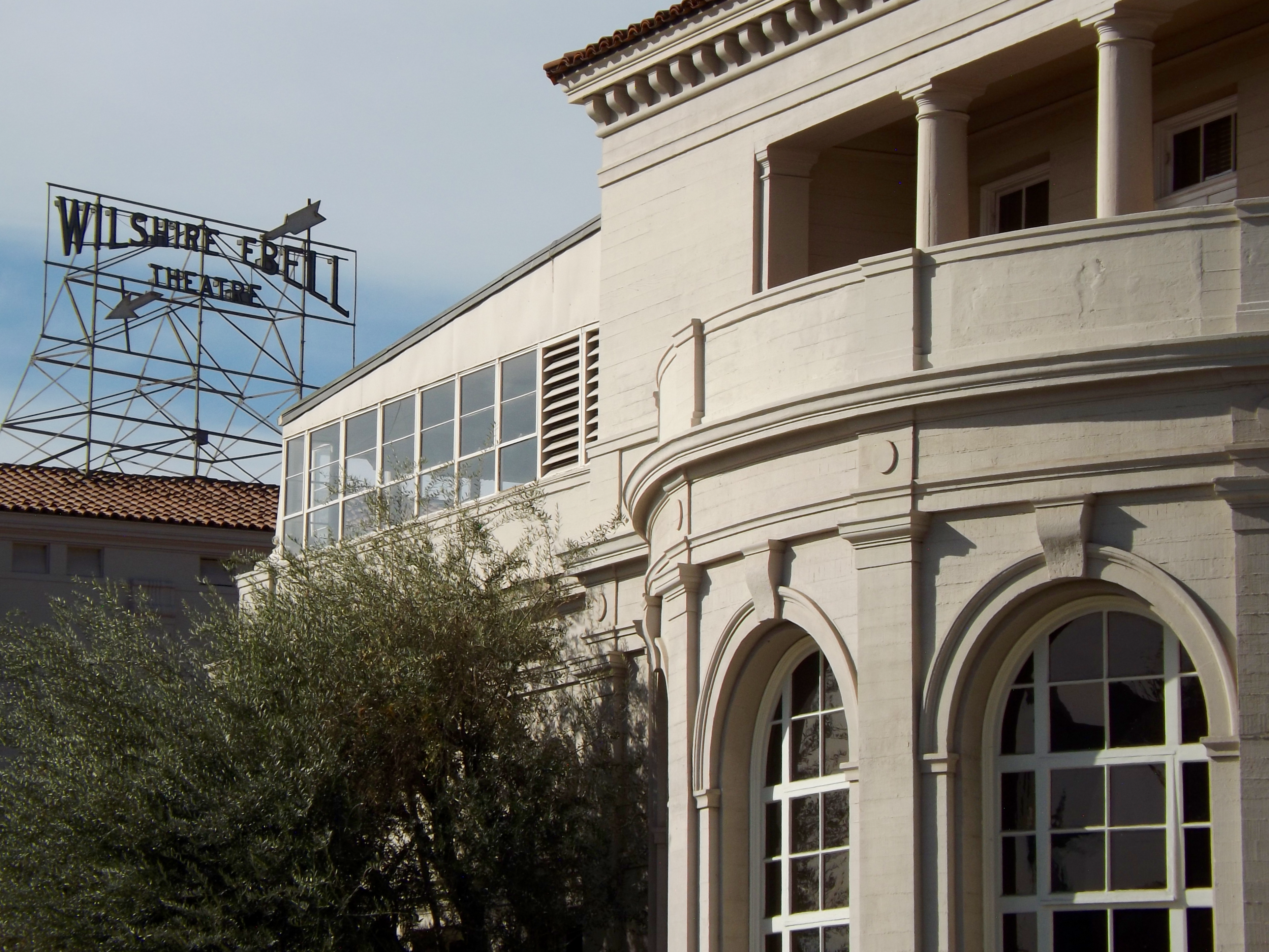 Wilshire Ebell Theater with directional sign in background, 2015 Other information Photo by George Garrigues.